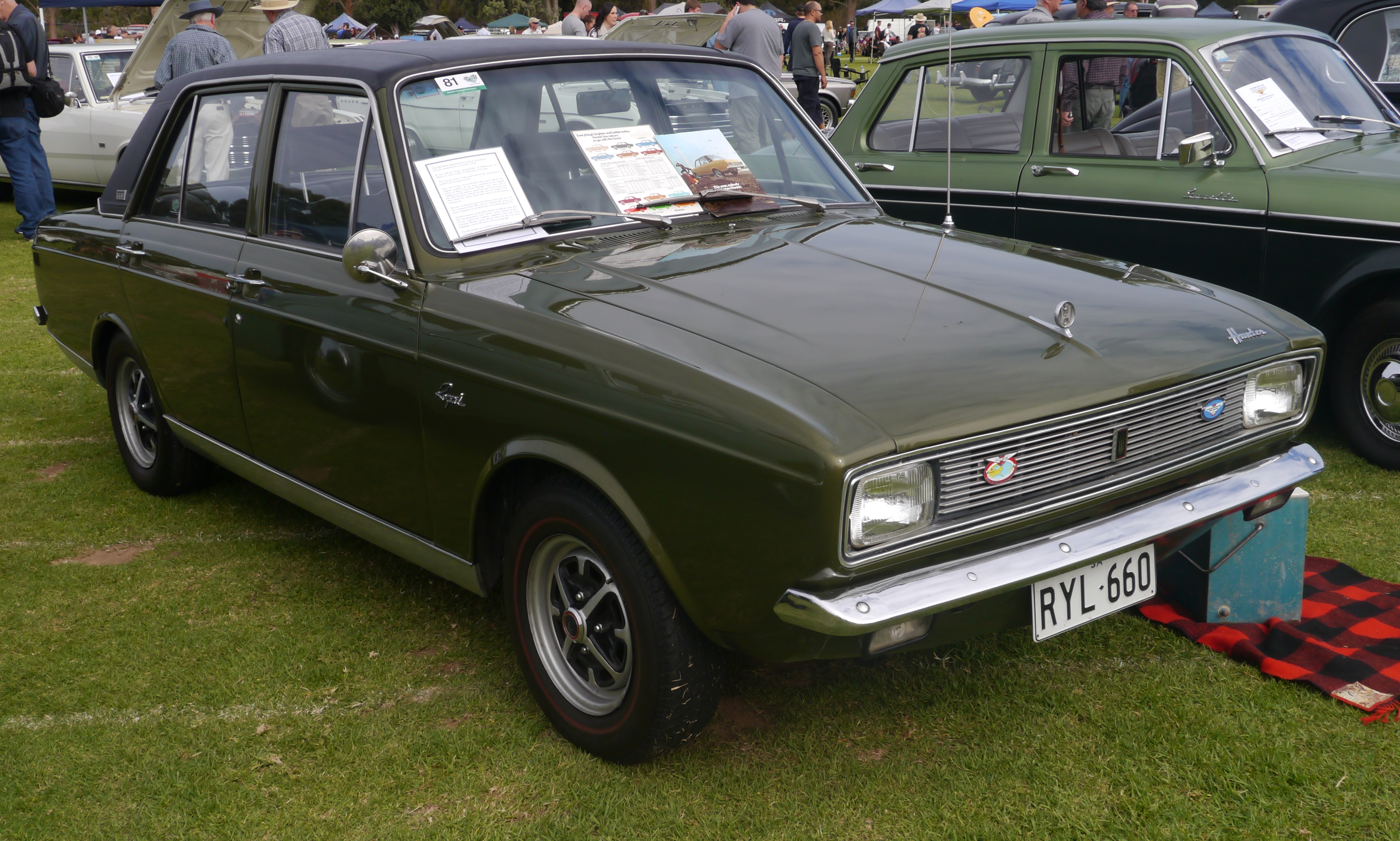 A rare beast nowadays!